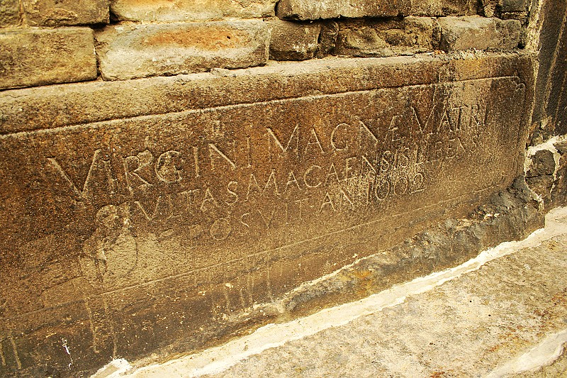 Inscription in the ruins of the Cathedral of Saint Paul, Macau. The inscription is interpreted as: "To the Great Virgin Mother the city of Macau willingly placed this in the year 1602", or "The City of Macau built this Church in honour of the Great Virgin Mother in the year 1602" VIRGINI MAGNÆ MATRI CIVITAS MACAENSIS LIBENS POSVIT·AN·1602